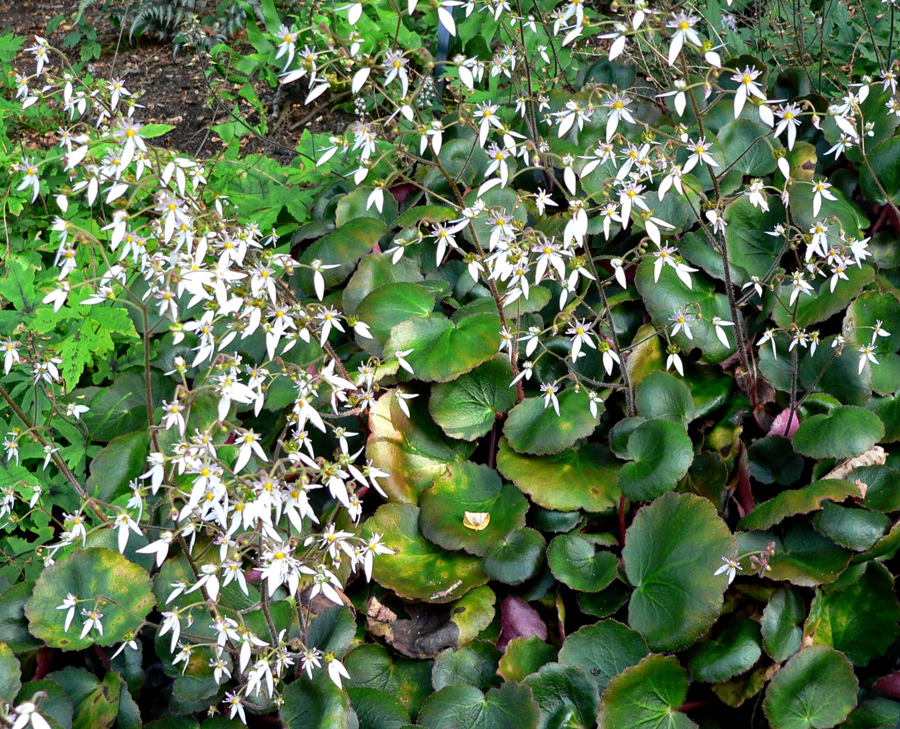 Photo of Saxifraga stolonifera 'Harvest Moon' at VanDusen Botanical Garden